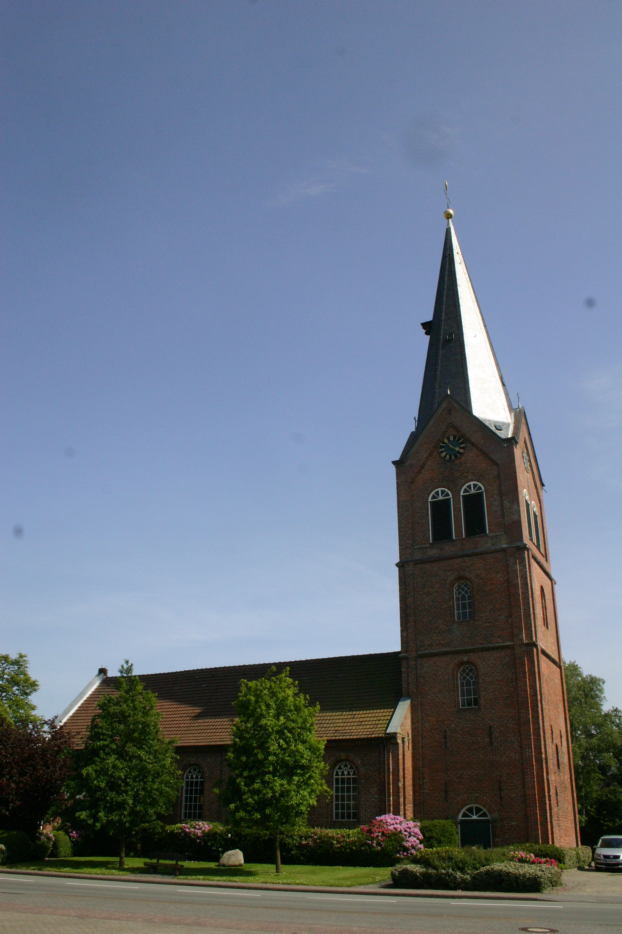 Historic church (ref.) in Neermoor, district of Leer, East Frisia, Germany